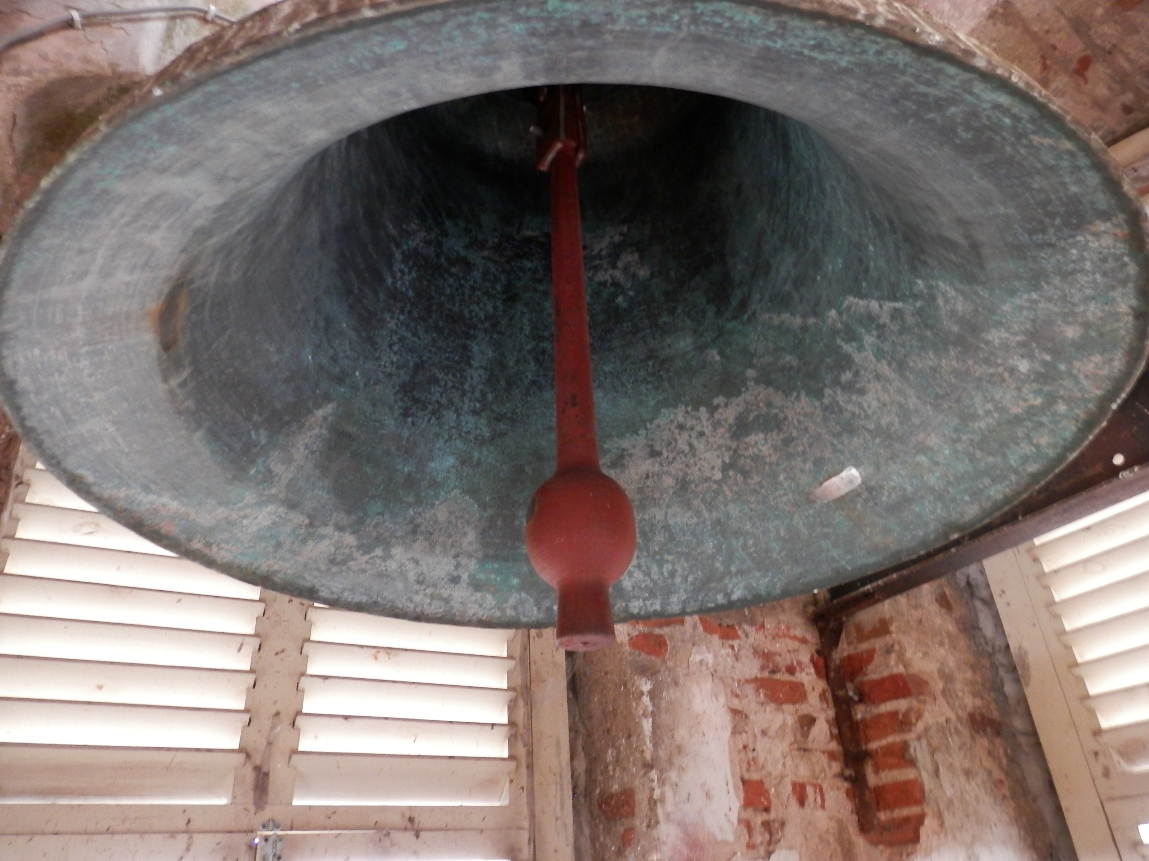 Franciscan Church of Saint Michael the Archangel. Ivyanets, Belarus.